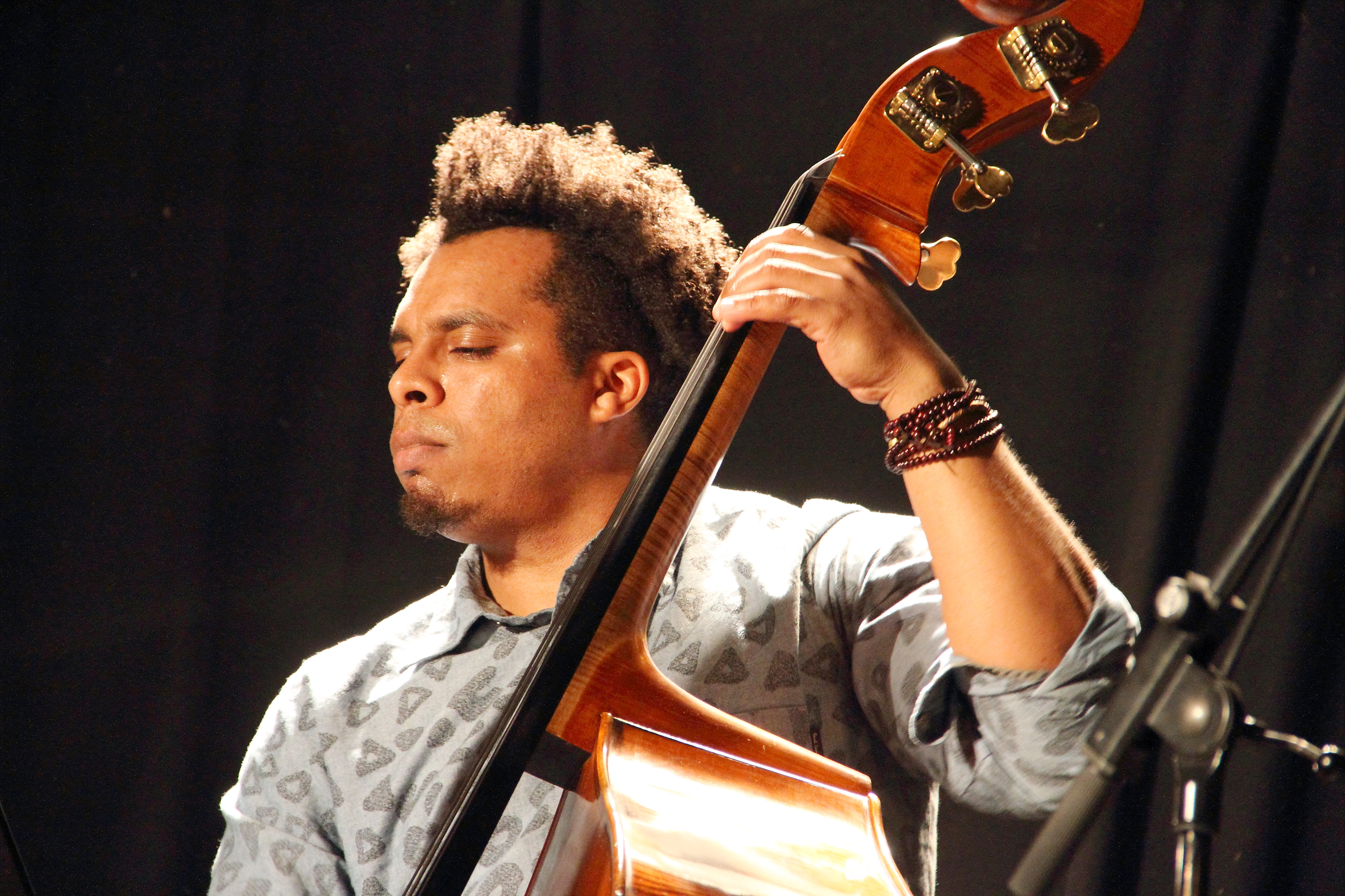 David Murray & Class Struggle at INNtöne Jazzfestival 2018.